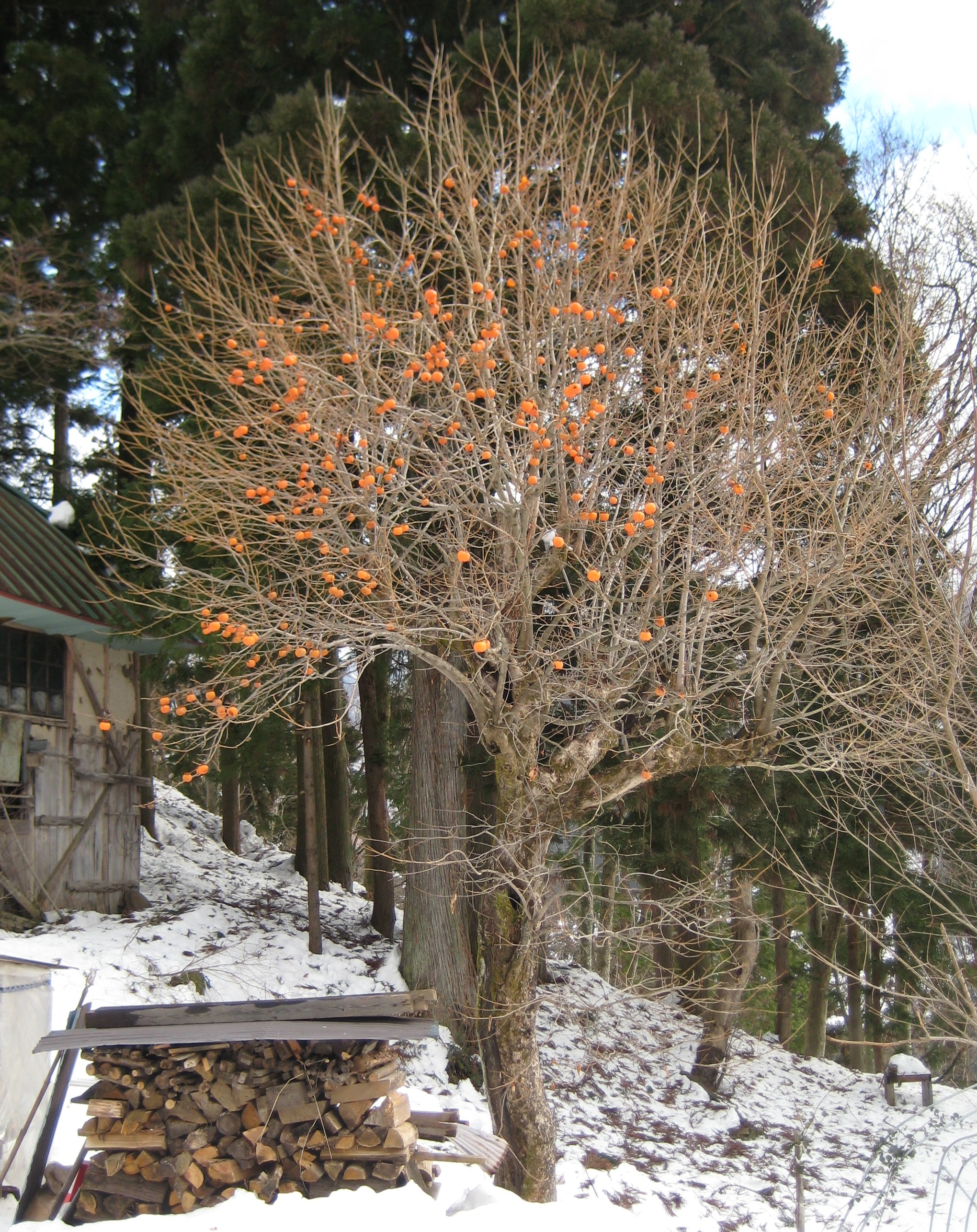 Persimmons tree in winter. Nagano prefecture, Japan